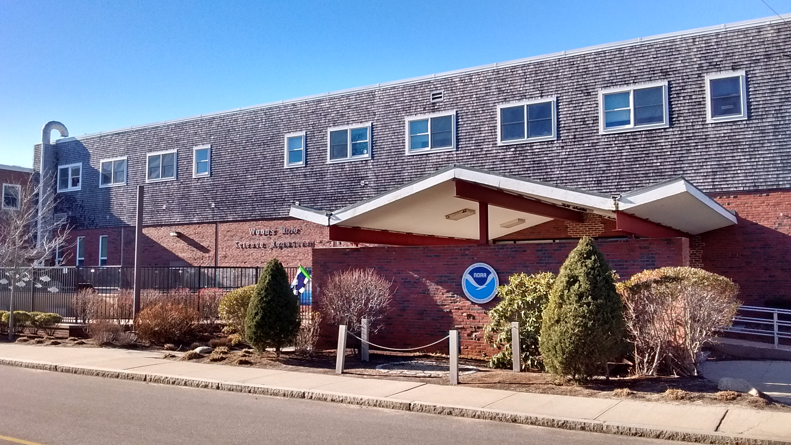 Front facade of the Woods Hole Science Aquarium